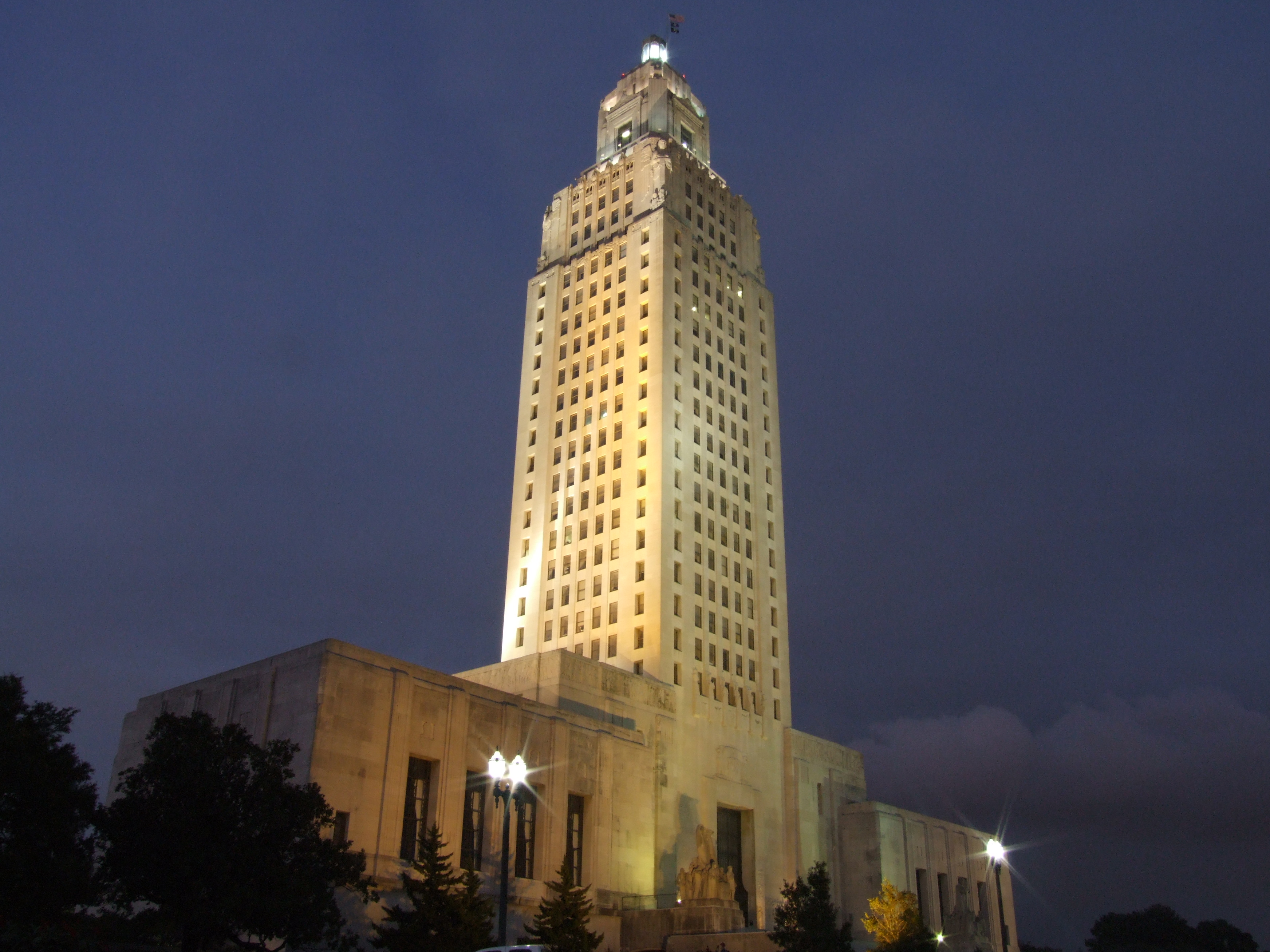 The Louisiana State Capitol building in Baton Rouge, Louisiana at night.